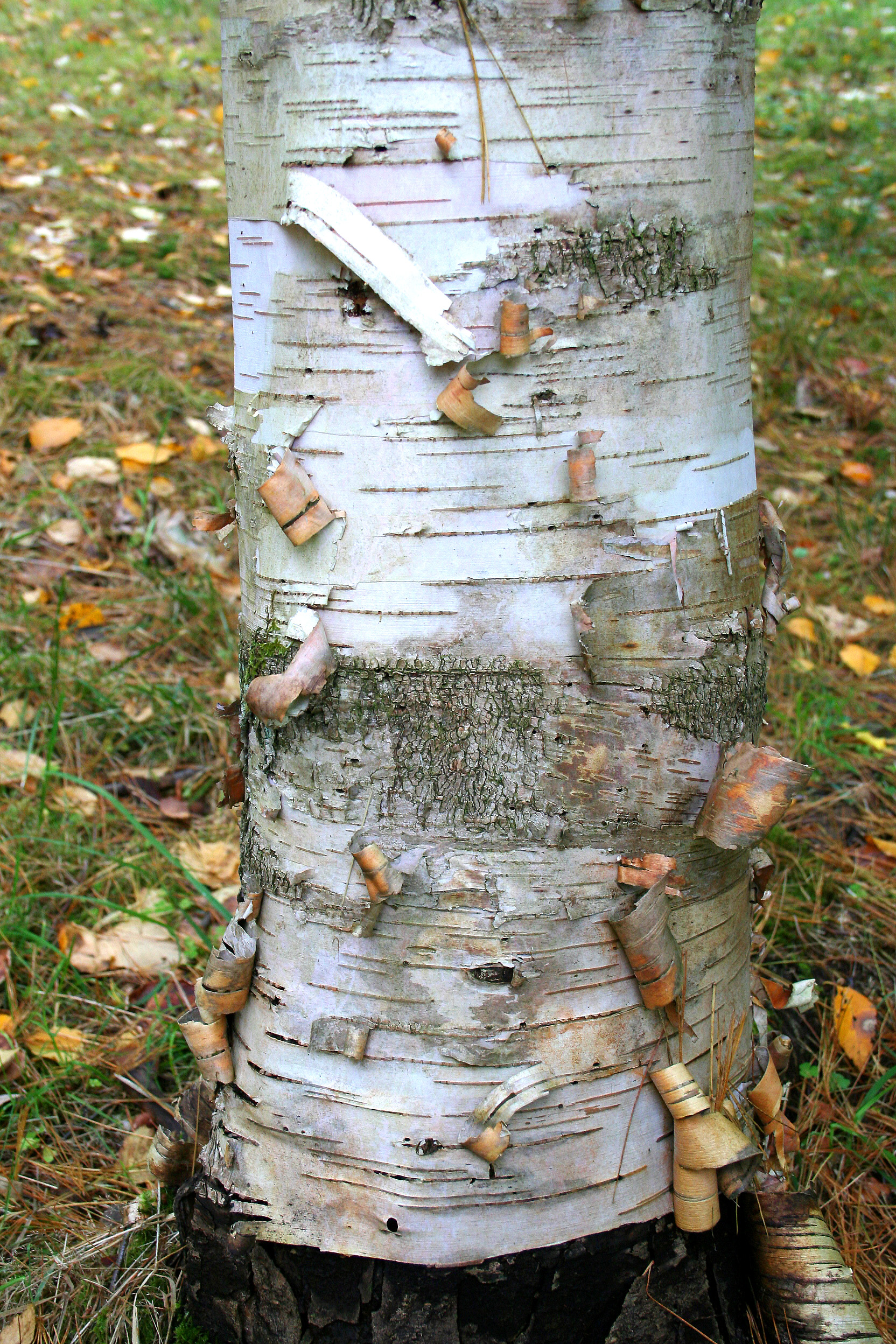 Trunc and bark of the Himalayan Birch or White-barked Himalayan Birch (Betula utilis) var. jacquemontii Planting year : 1965 Precise location : Arboretum Robert Lenoir (S37 - 1863) - Rendeux (Belgium). Walon: Sto èt scwace dol blanke bèyôle di l’Hymalaya (Betula utilis) var . jacquemontii Anéye do plantis’ : 1965 Place rècta: Arboretum Robert Lenoir (S37 - 1863) - Rindeu (Bèljike).